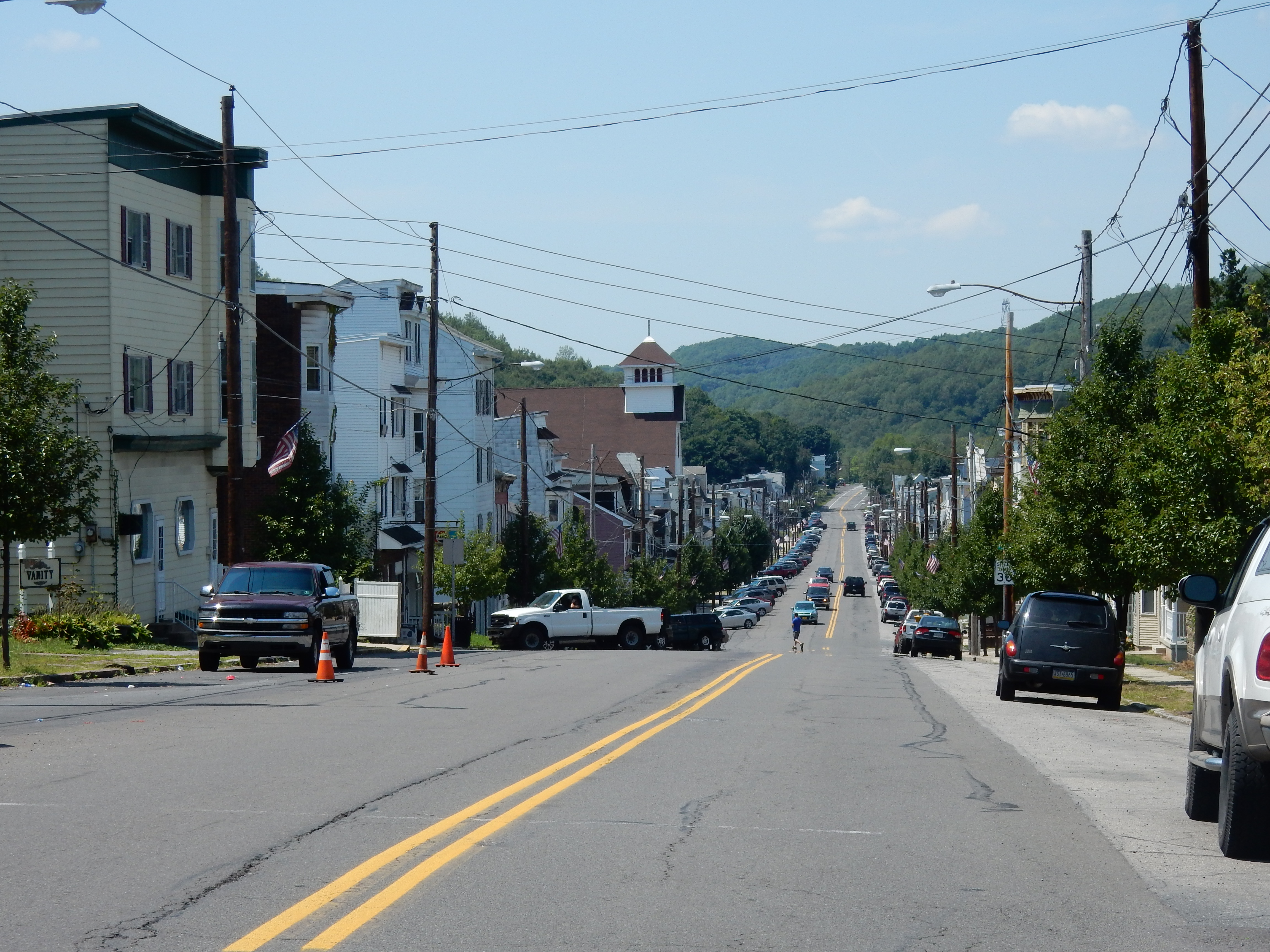 East Main St., Girardville, Schuylkill County, Pennsylvania. Looking west.